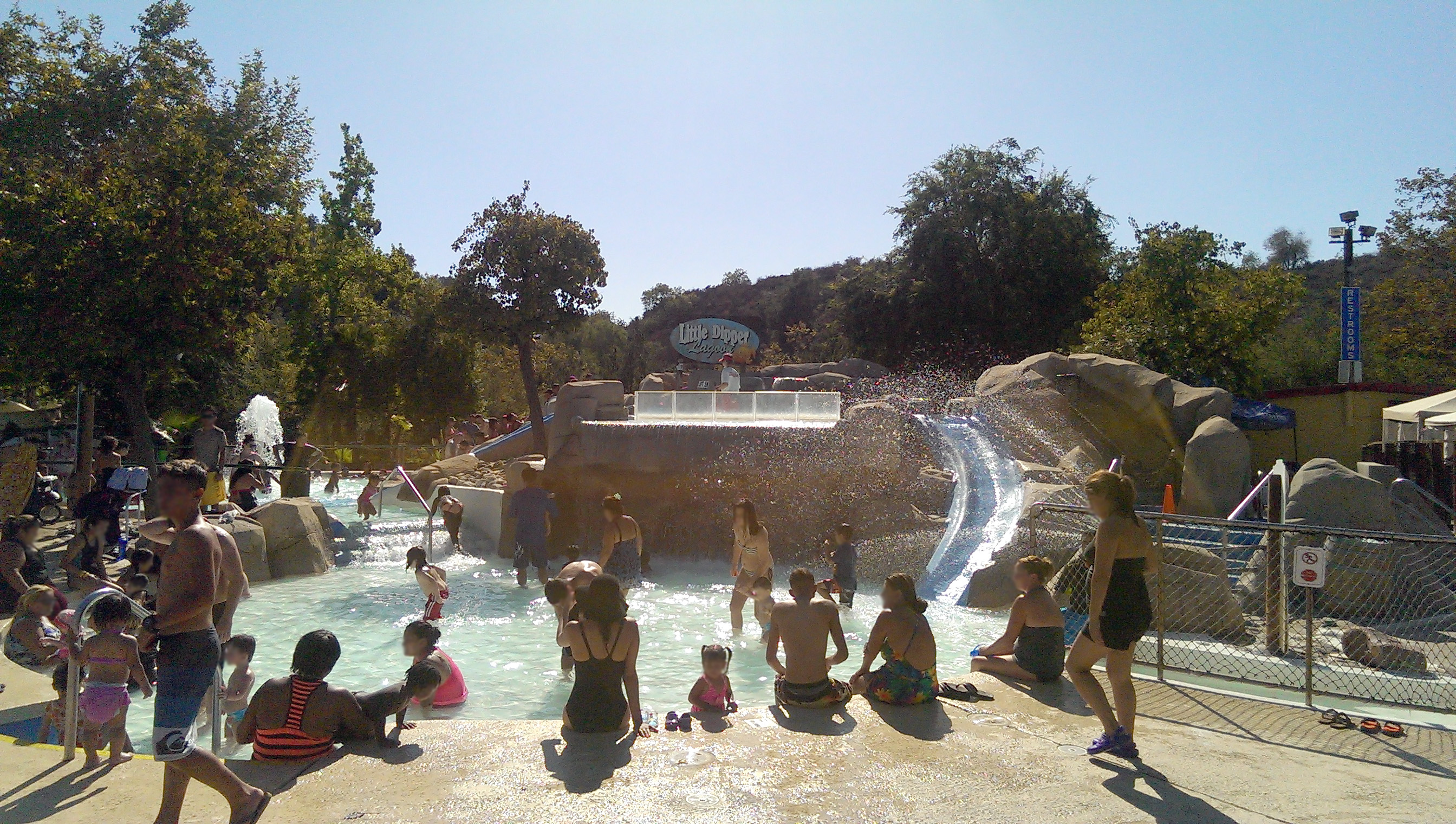 A play area for young children at Raging Waters San Dimas. Faces blurred to protect privacy.